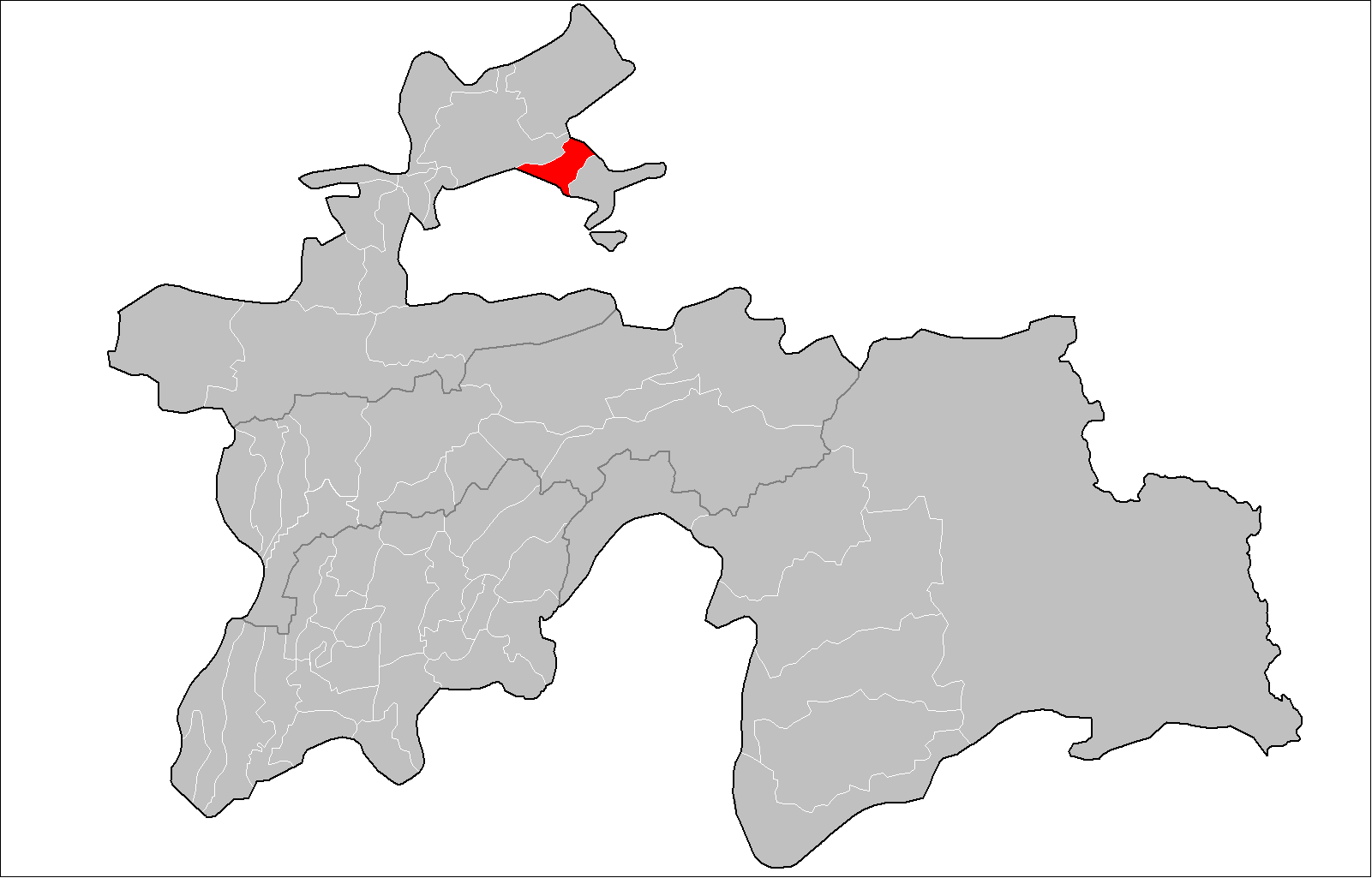 Location of Konibodom District in Tajikistan